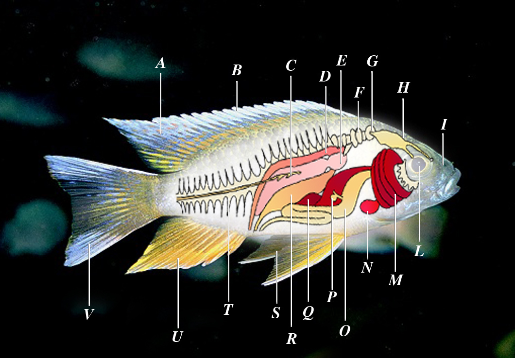 Ray-finned fish come in many forms. The figure shows general characteristics of the more common anatomical parts: A - dorsal fin: B - fin rays: C - lateral line: D - kidney: E - swim bladder: F - apparatus of Weber: G - inner ear: H - brain: I - nostrils: L - eye: M - gills: N - heart O - stomach: P - gall bladder: Q - spleen: R - internal sex organs (ovaries or testes): S - ventral fins: T - spine: U - anal fin: V - tail (caudal fin). Possible other parts not shown: barbels, adipose fin, external genitalia (gonopodium).